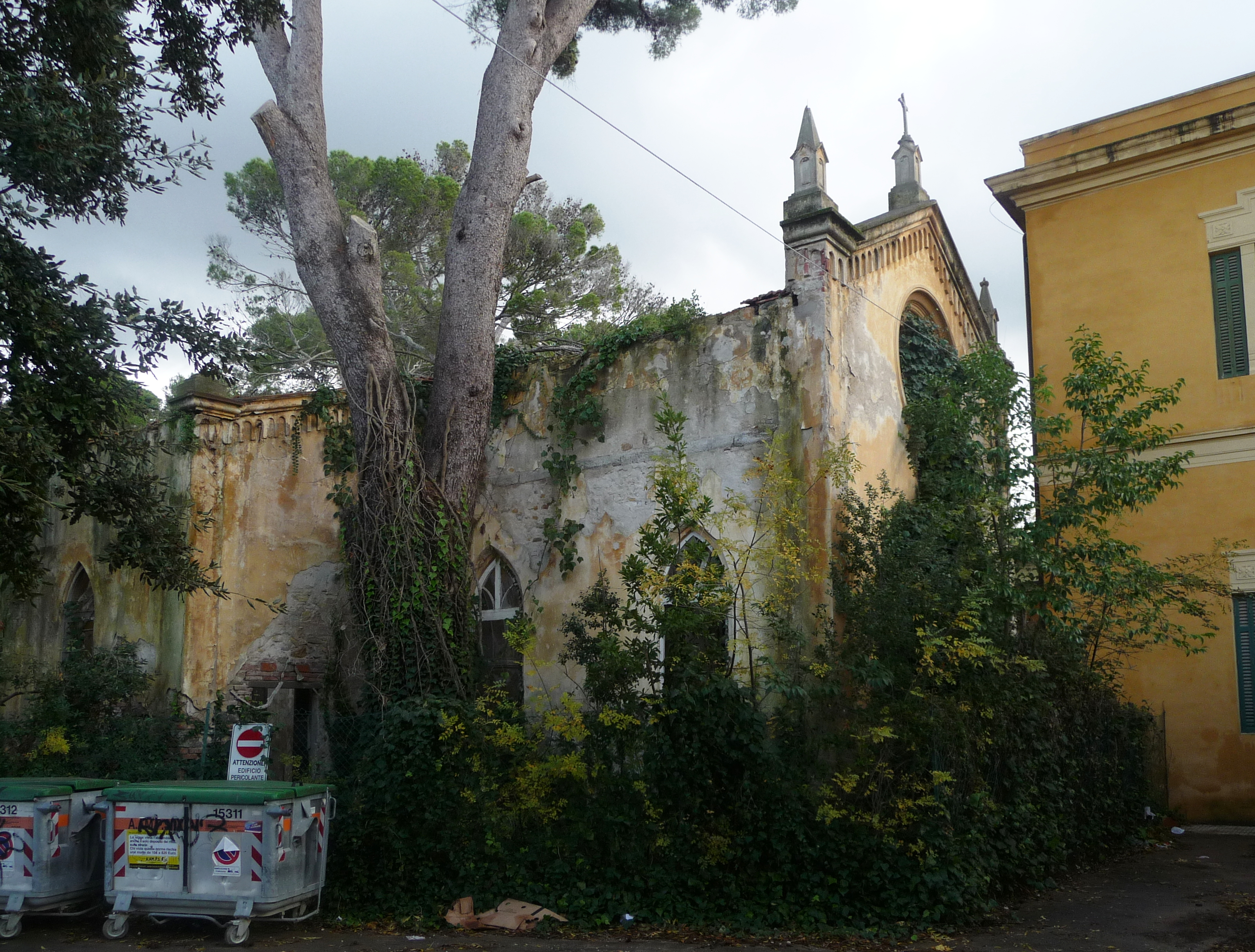 Villa Corridi, Livorno, Italy - church ruin